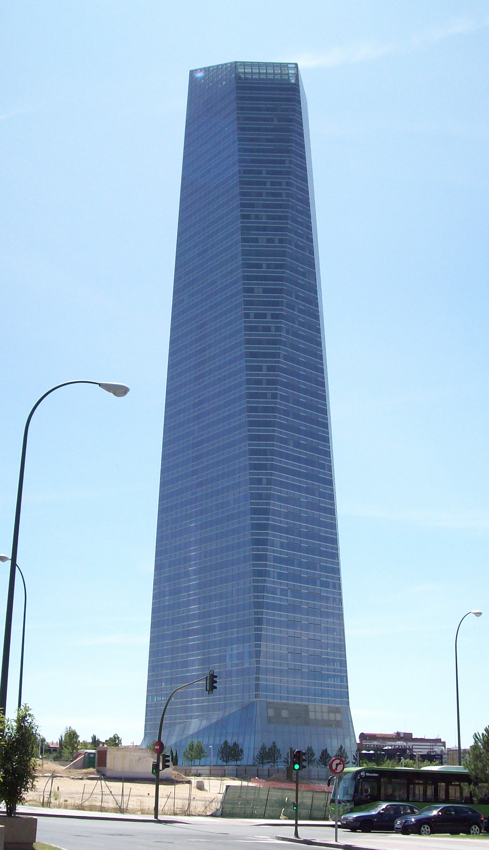 View of Torre de Cristal ("Crystal Tower") in Cuatro Torres Business Area (Madrid, Spain) from the north-west angle.